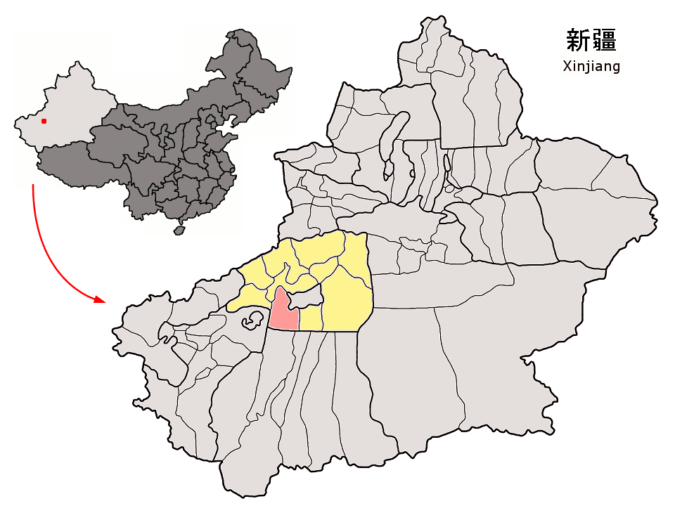 Location of Awat County (pink) and Aksu Prefecture (yellow) within Xinjiang autonomous region of China Map drawn in september 2007 using various sources, mainly : Xinjiang Uygur autonomous region administrative regions GIS data: 1:1M, County level, 1990 Xinjiang Counties map from